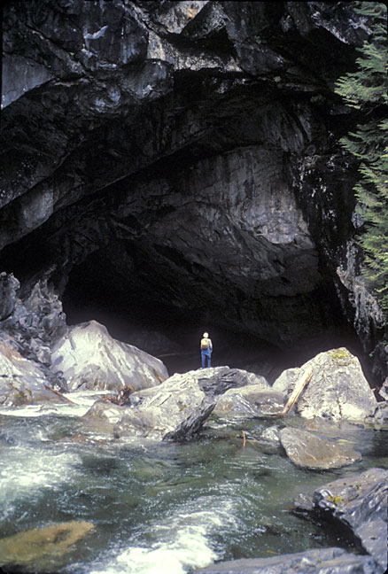 Entrance to Artlish River Cave, Vancouver Island, Canada